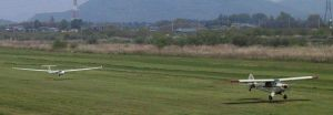 6 April 2001 at Itakura Gliderport, Gunma, Japan. A glider is being launched by a towplane. Photo:K.Shimada